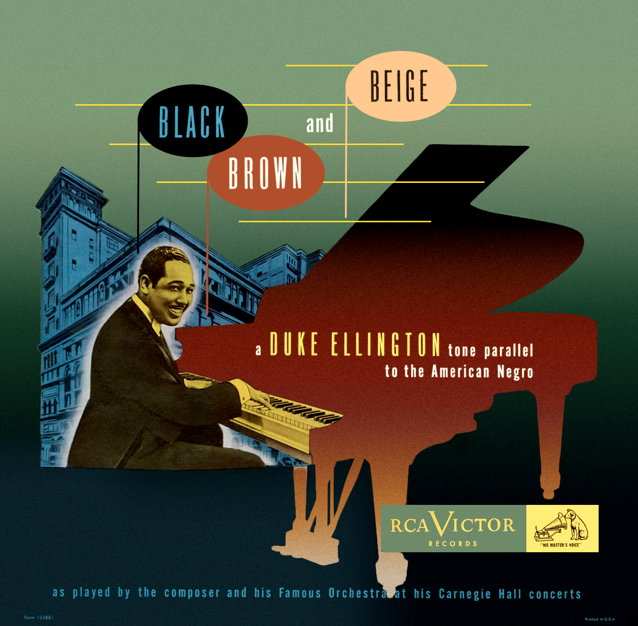 Reissue cover, notice the 'RCA Victor', just coming into use in the spring of 1946